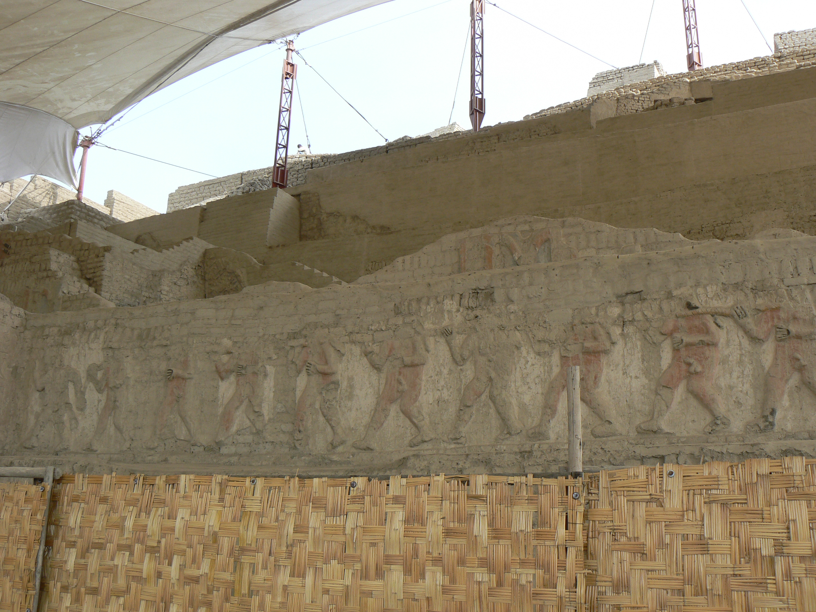 Famous adobe relief mural of naked prisoners being led by a warrior at the Huaca El Brujo (Witchdoctor) site. The huaca was the work of the pre-Inca Moche civilization (100 CE to 800 CE) in northern Peru.